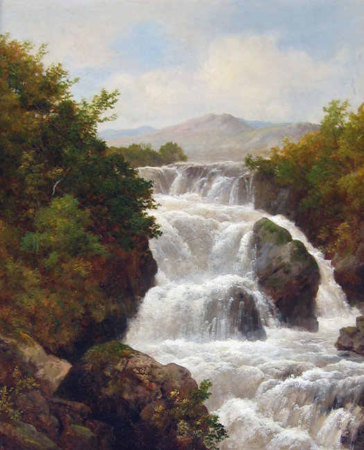 "The Waterfall"